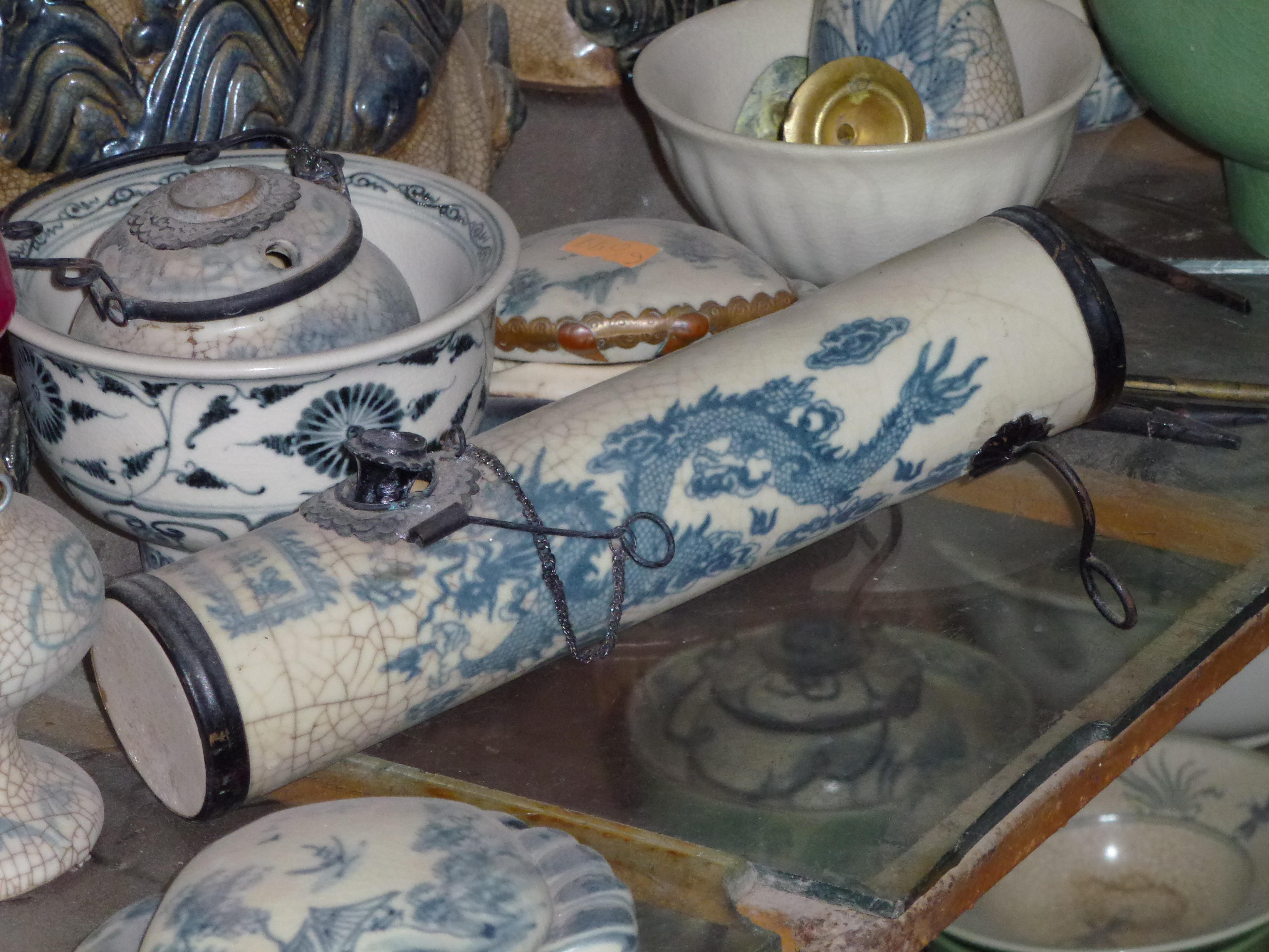 Vietnamese pipe for smoking